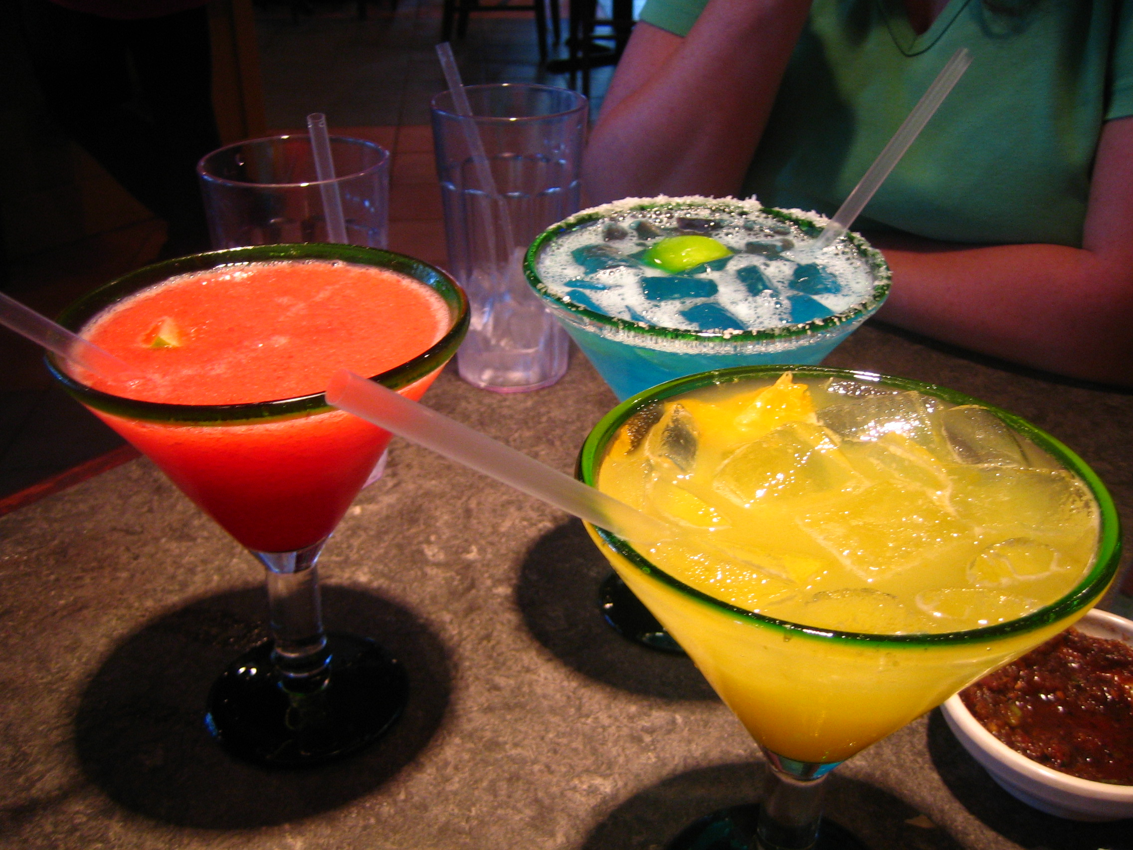 Memorial Day margaritas (margarita, Memorial Day, 2006, San Francisco, SOMA, Chevy's, Mexican, Tex-Mex, Southwestern, booze, straws, Kristen, cocktail, salsa, colors)